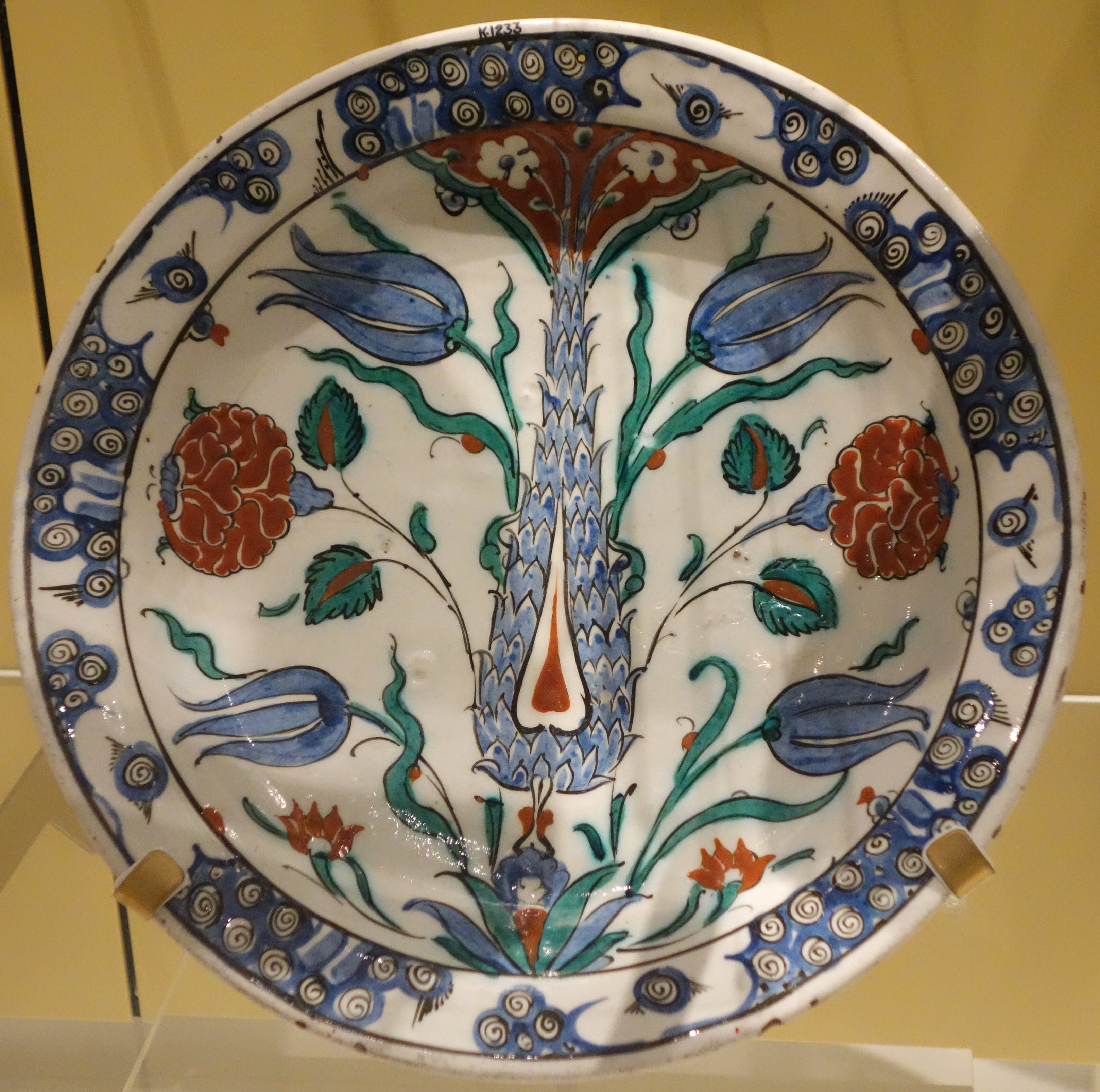 Exhibit in the Royal Ontario Museum, Toronto, Ontario, Canada. This work is old enough so that it is in the public domain.